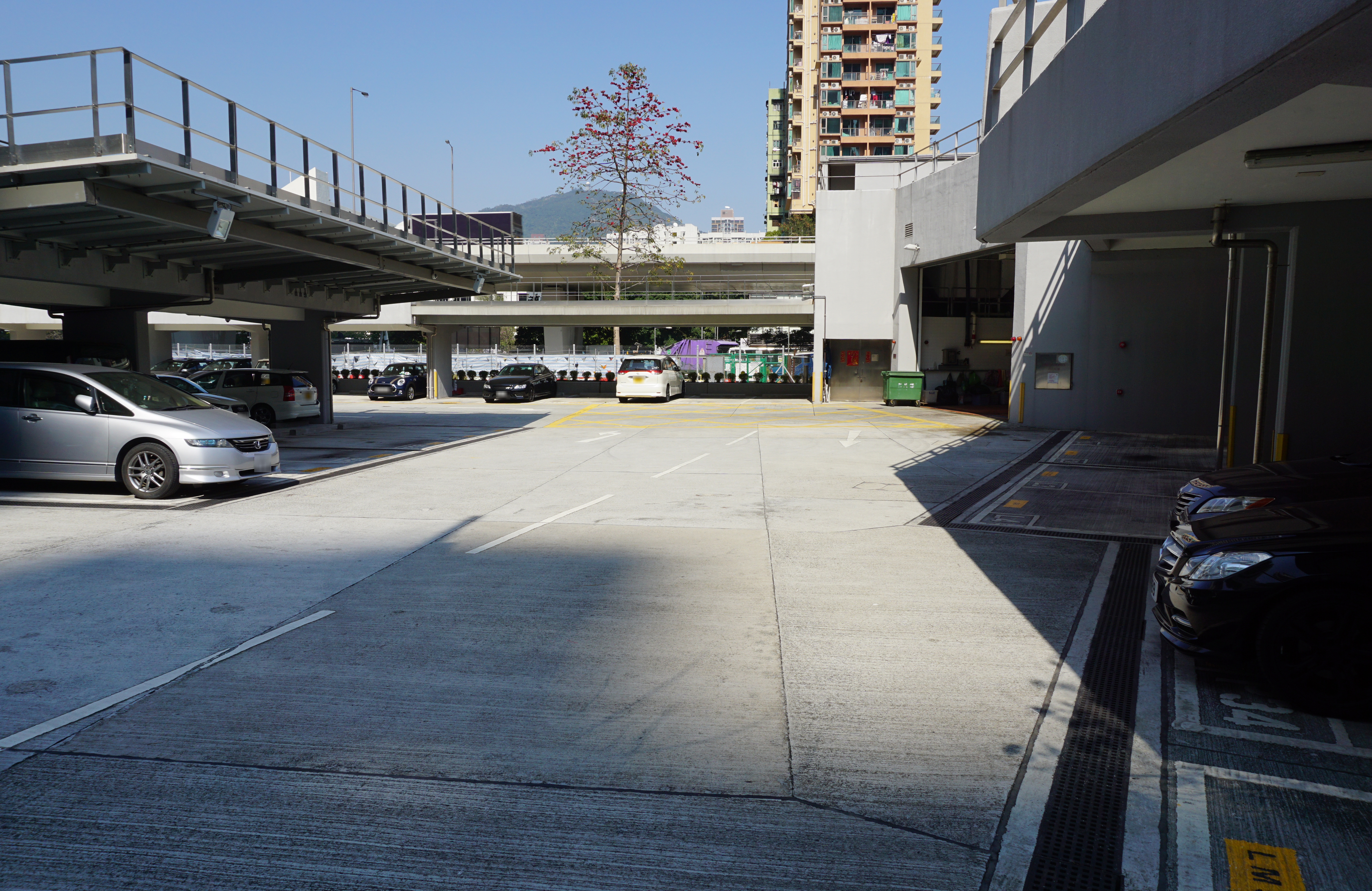 Wing Cheong Estate in Sham Shui Po, Hong Kong.